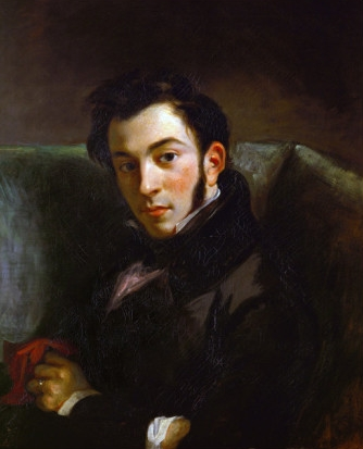 Depicted person: Frédéric Villot, painted by his friend Eugene Delacroix